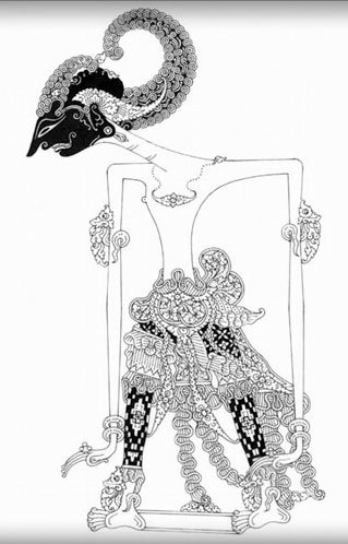 Irawan